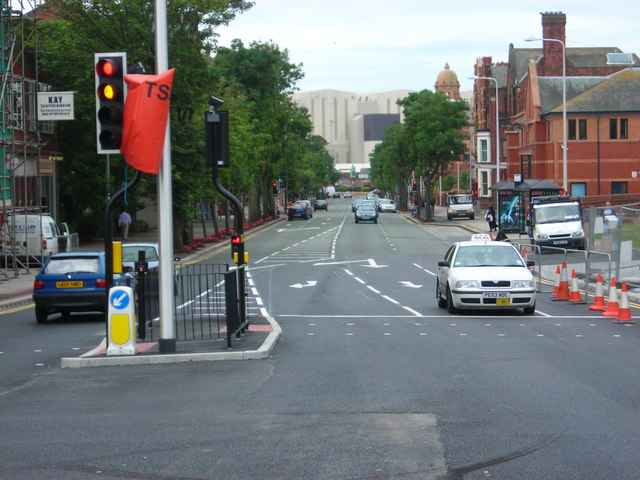 Abbey Road running through of Hindpool, Barrow-in-Furness